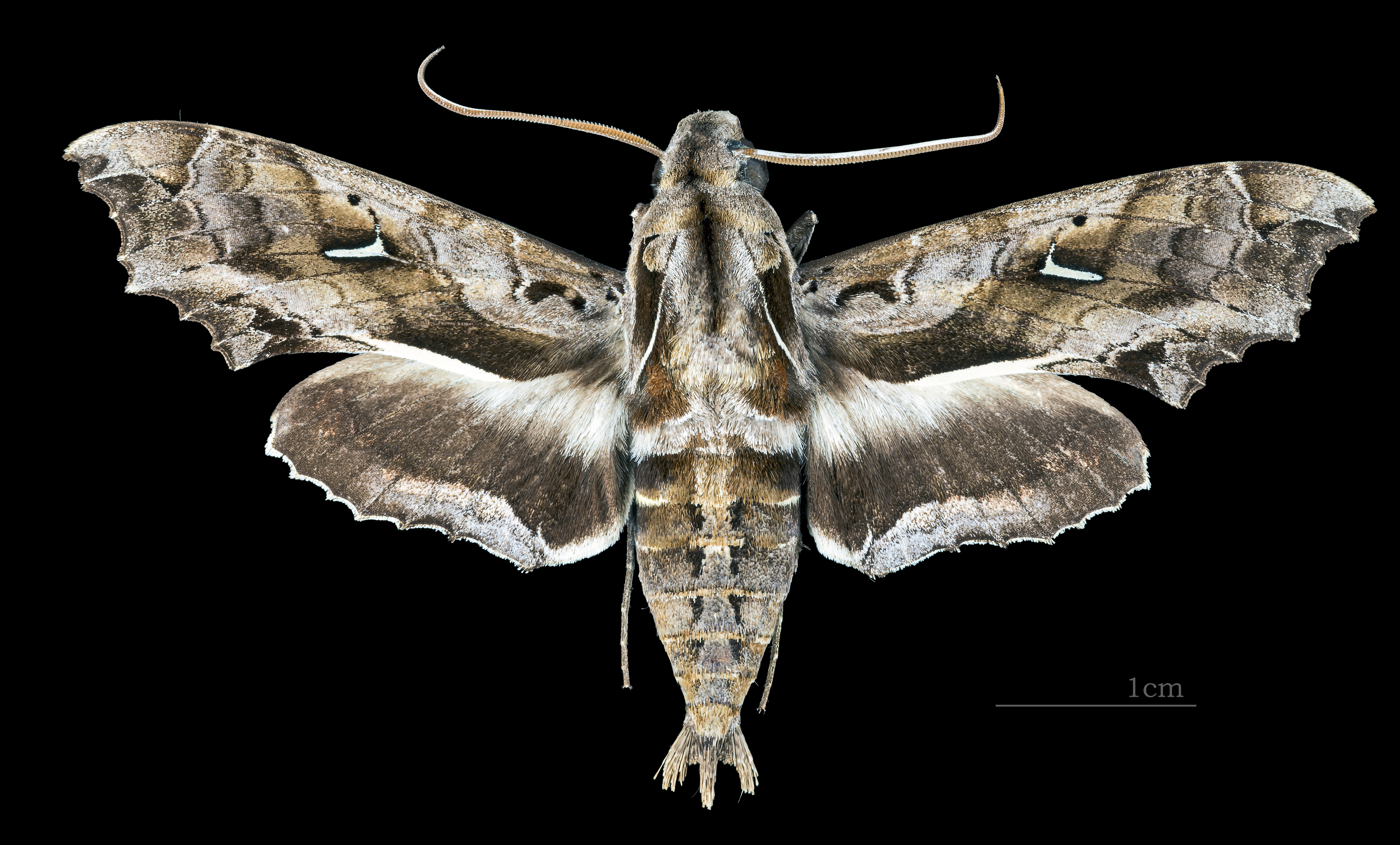 Hemeroplanes triptolemus - Dorsal side Collection of the Mathematician Laurent Schwartz